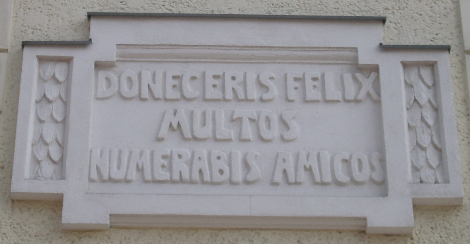 As long as you are fortunate, you will have many friends.